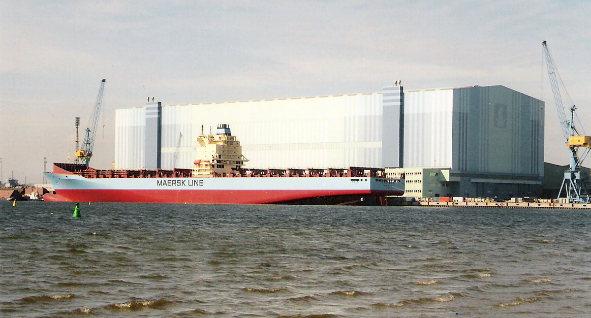 The largest container ship produced to date, the 294 meters (964.5 ft) long and 32 meter (105 ft) broad "Maersk Boston", in March 2006 before launch from Daenholm. IMO Number: 9313905 MMSI Number: 235010540 Callsign: MLFB4 Length: 294 m Beam: 32 m